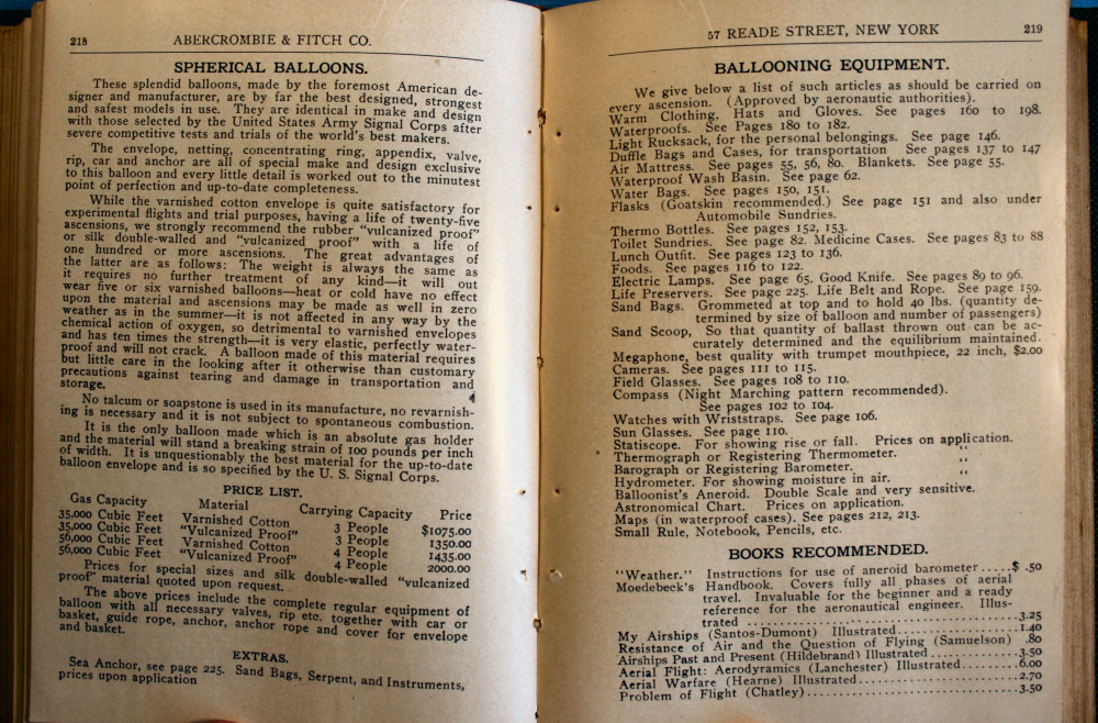 Catalog page on Ballooning Equipment from 1909 Abercrombie and Fitch Catalog